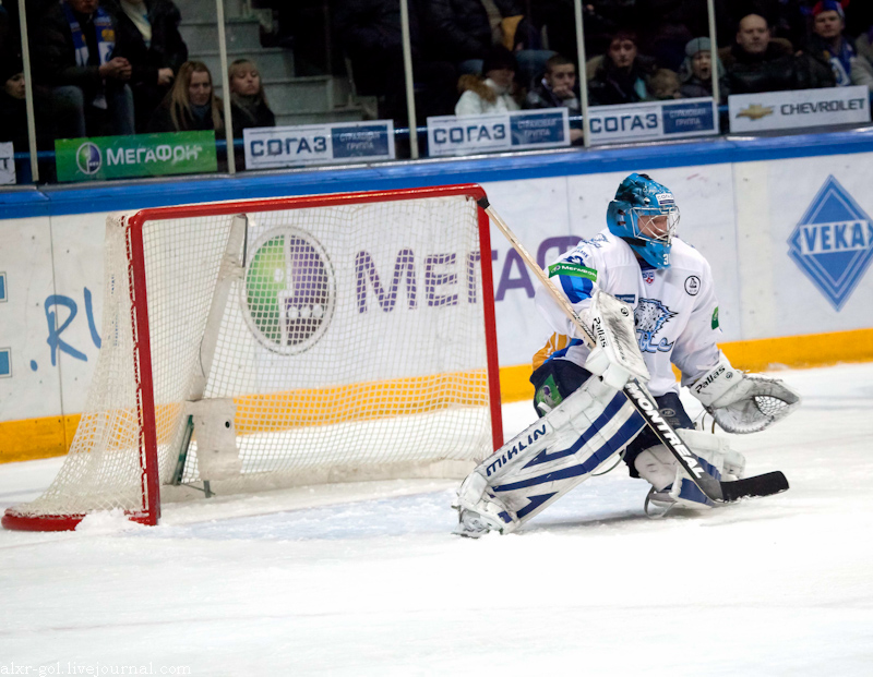 KHL game Amur Khabarovsk vs. Barys Astana on December 10, 2011. Barys Astana goaltender Vitaliy Yeremeyev